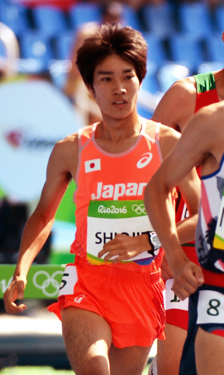 Kazuya Shiojiri in the first of three qualifying heats in the men's 3,000-meter steeplechase on Aug. 15 at the 2016 Rio Olympic Games in Rio de Janeiro.